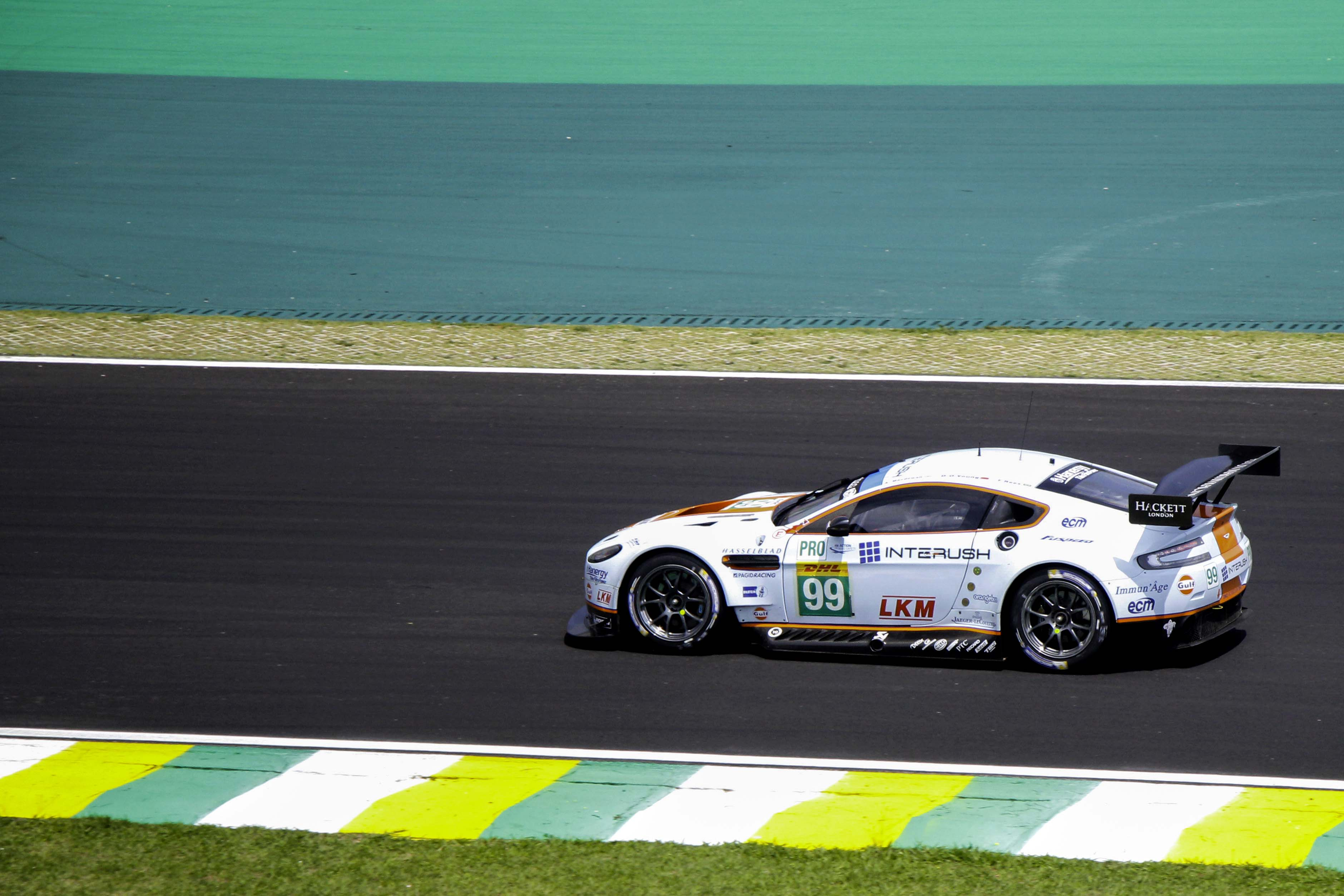 Also in the GTE Pro class, the # 99 Craft Bamboo Racing team recorded their second best qualifying result of the year with local driver Fernando Rees (BR) and team-mate Darryl O'Young who, along with Alex MacDowall (GB).